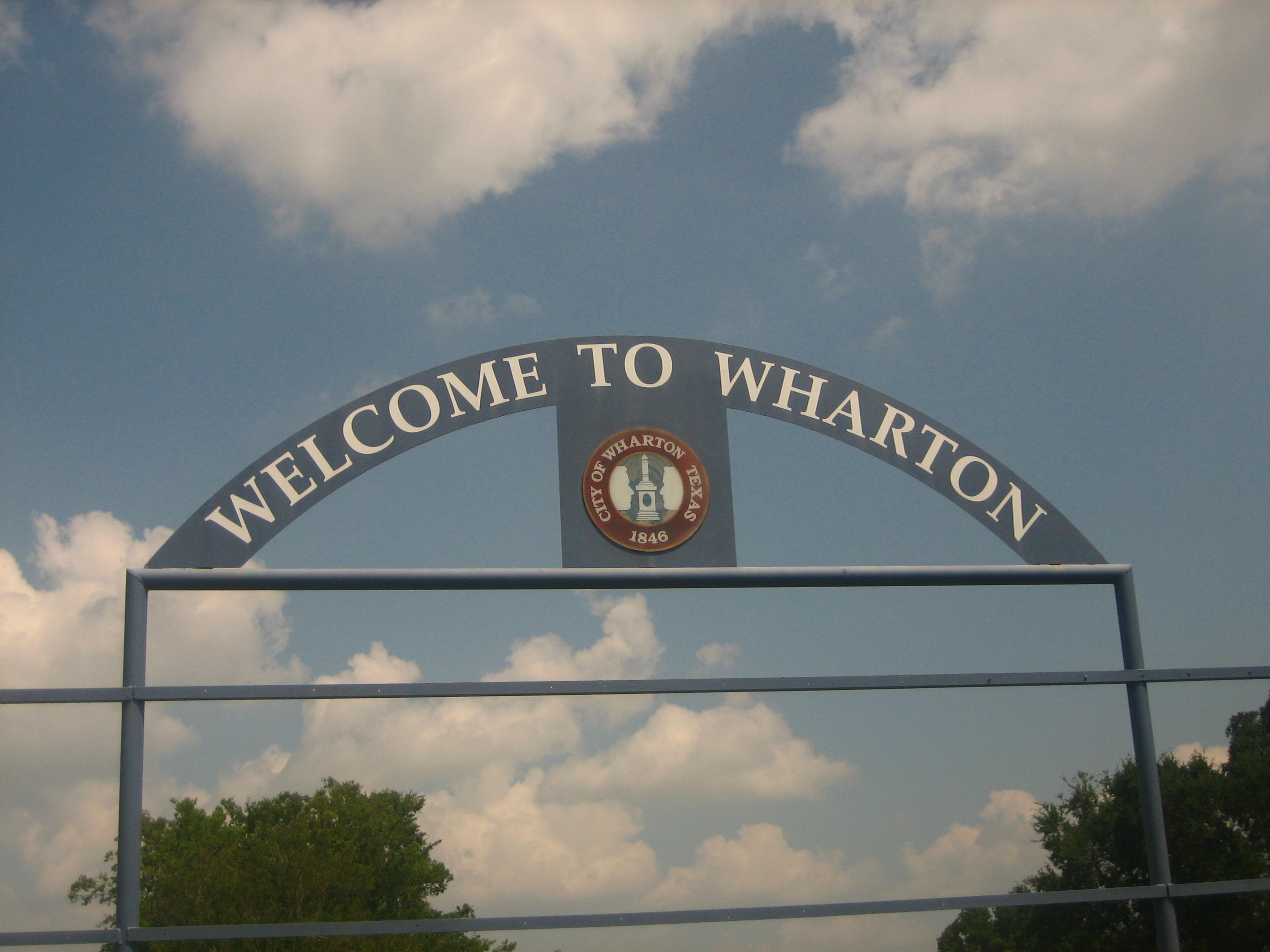 I took photo on July 31, 2008.Billy Hathorn (talk) 13:44, 7 September 2008 (UTC)